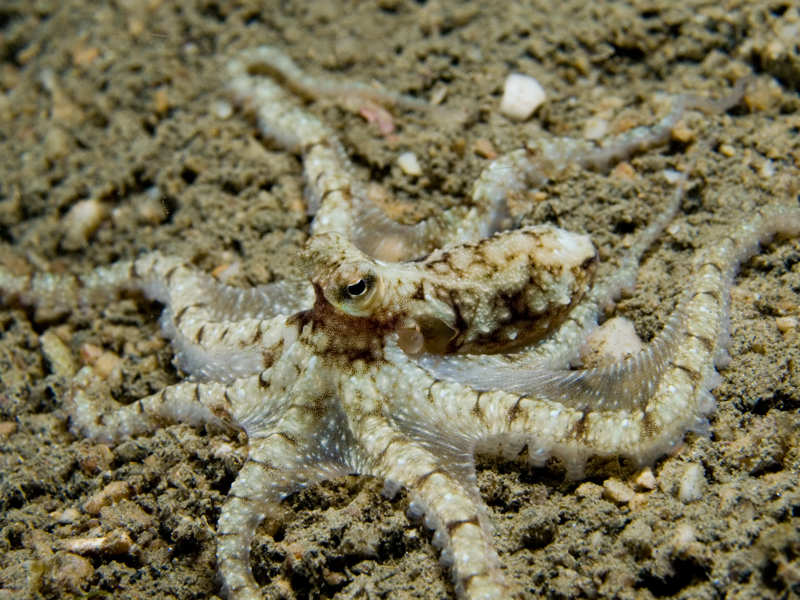 Octopus active at night in the coastal waters of Northern East Timor.